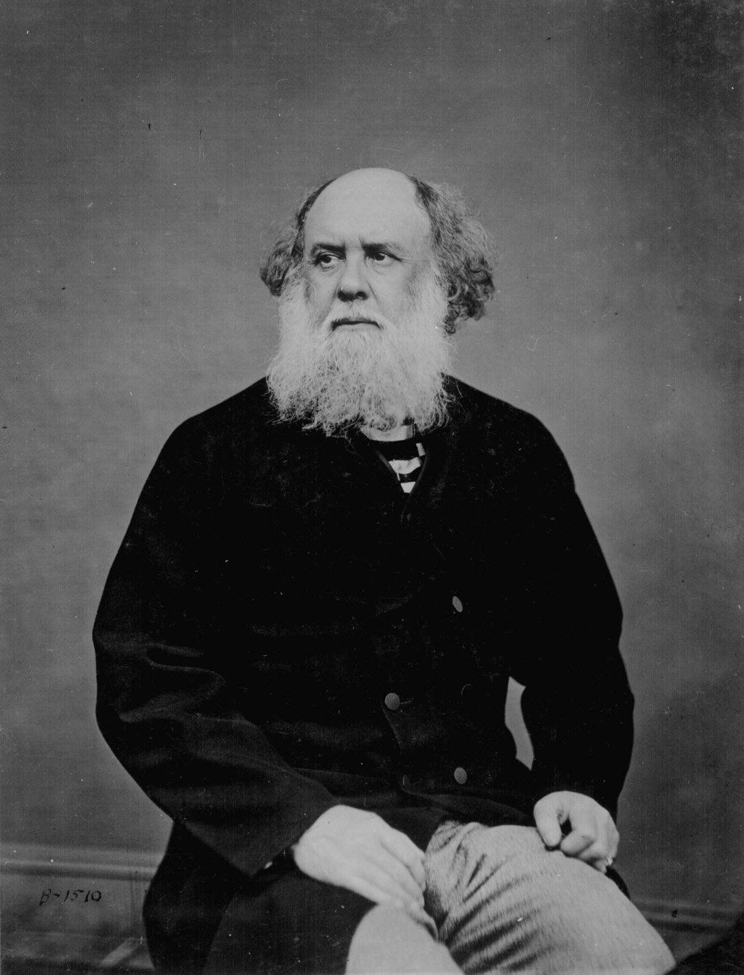 Sir Frederick Bruce (1814–1867), British Minister to the United States from March 1865; half-length, seated, Brady National Photographic Art Gallery